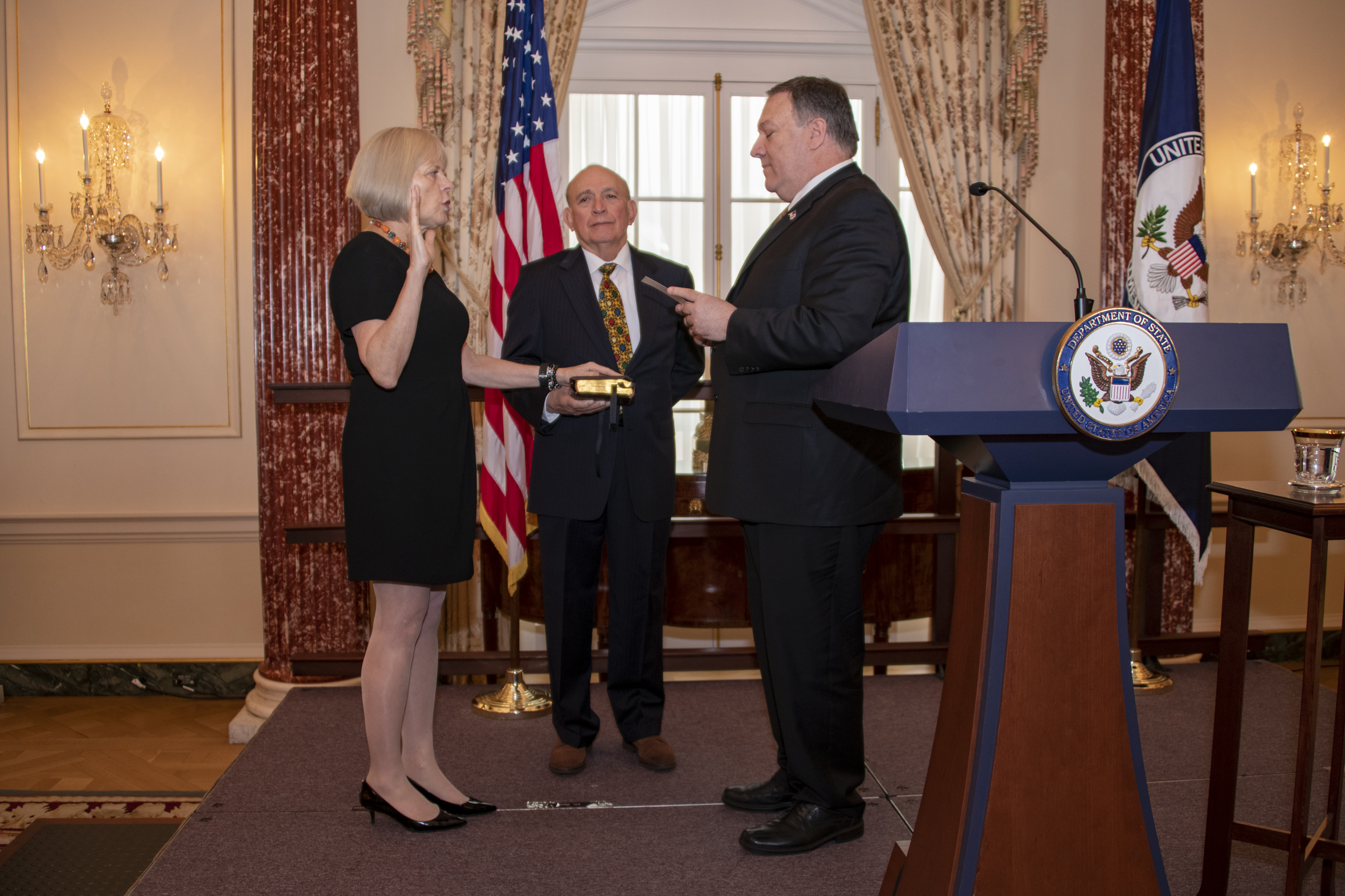 U.S. Secretary of State Michael R. Pompeo officiates the swearing-in ceremony for Director General of the Foreign Service and Director of Human Resources Carol Perez at the U.S. Department of State in Washington, D.C., on March 15, 2019. [State Department photo by Ron Przysucha/ Public Domain]